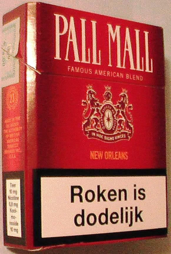 Dutch Package of Pall Mall